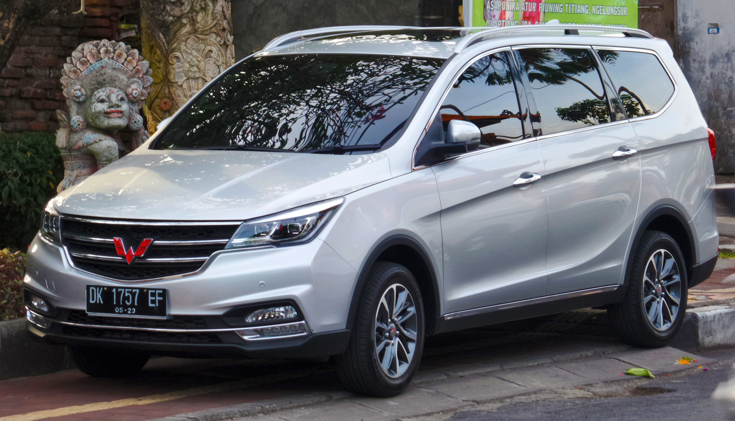 The Indonesian-built Wuling Cortez, itself the rebadge of Baojun 730, parked somewhere in Denpasar, Bali, Indonesia.